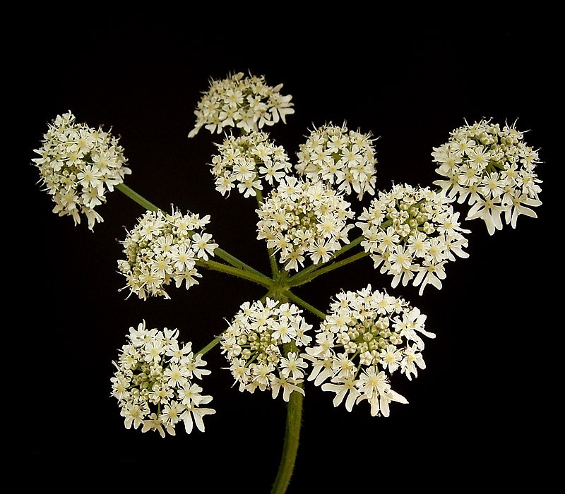 Heracleum sphondylium